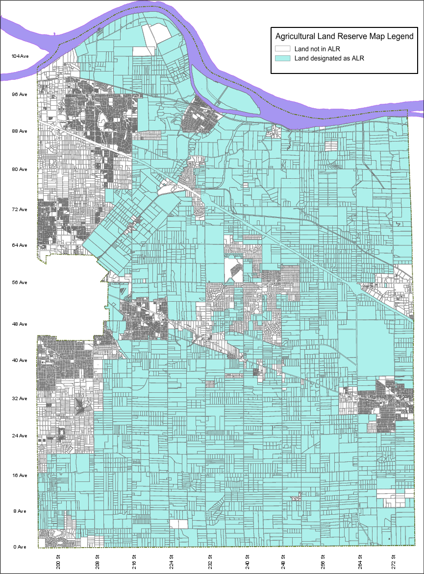 Map of ALR regions in the Township of Langley, based on data provided by the Council. Data up to date as of August 2012.